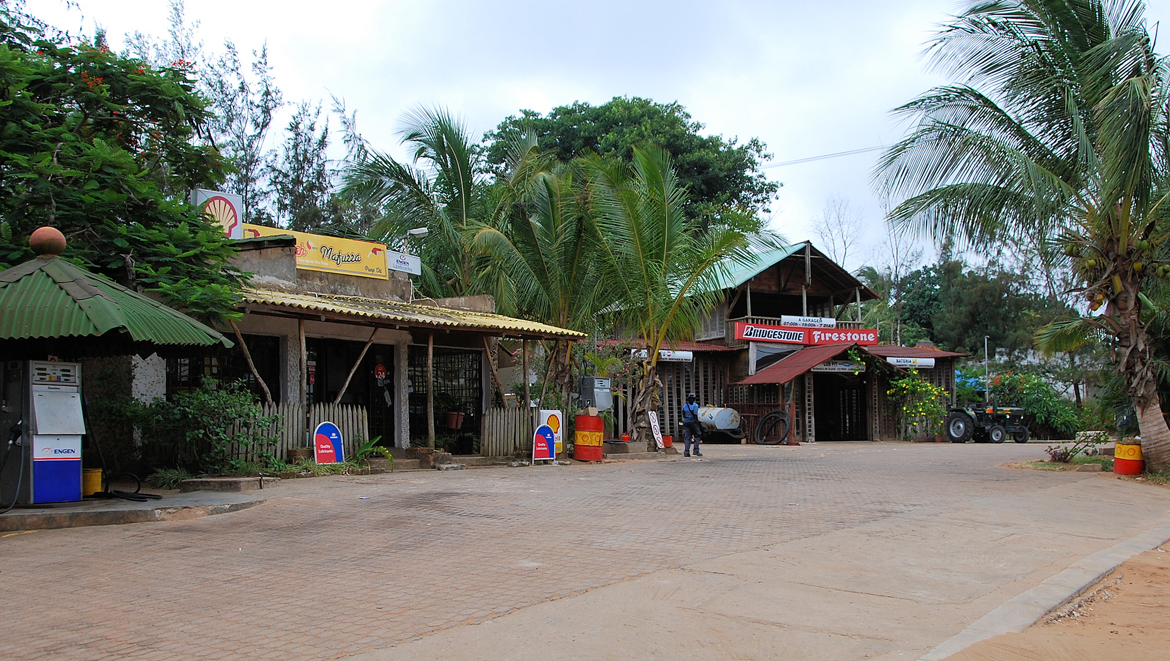 Garage and gas station in Xai-Xai district, Mozambique